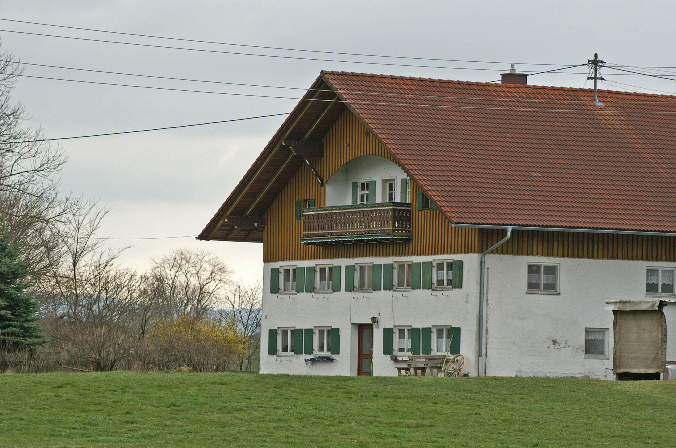 Moos, Kempten (Allgäu); Dachständer